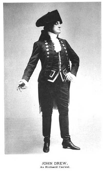 Photograph of American actor John Drew Jr, in the role of Richard Carvel, a play by Edward Everett Rose based on the popular 1899 novel by Winston Churchill.